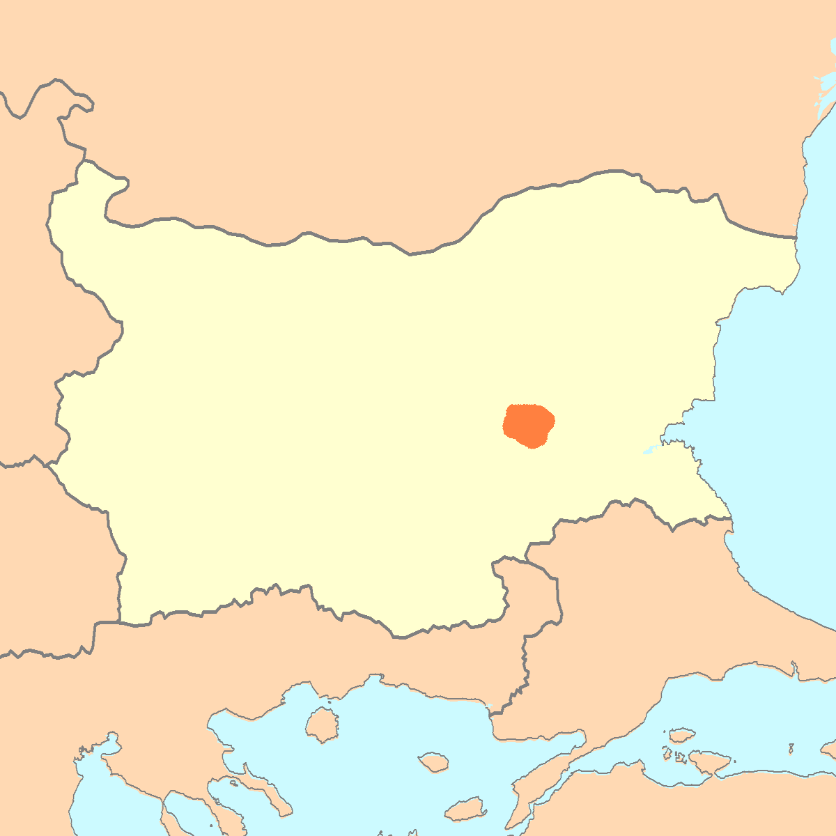 South Bulgarian Corriedale areal of distribution